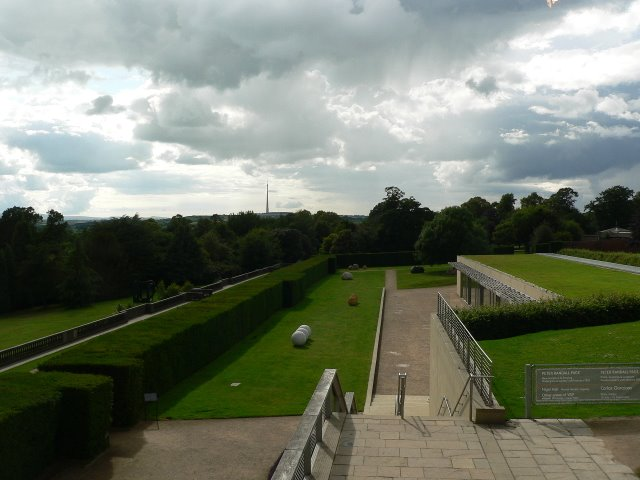 Outside the Visitor Centre YSP Emley Moor Mast